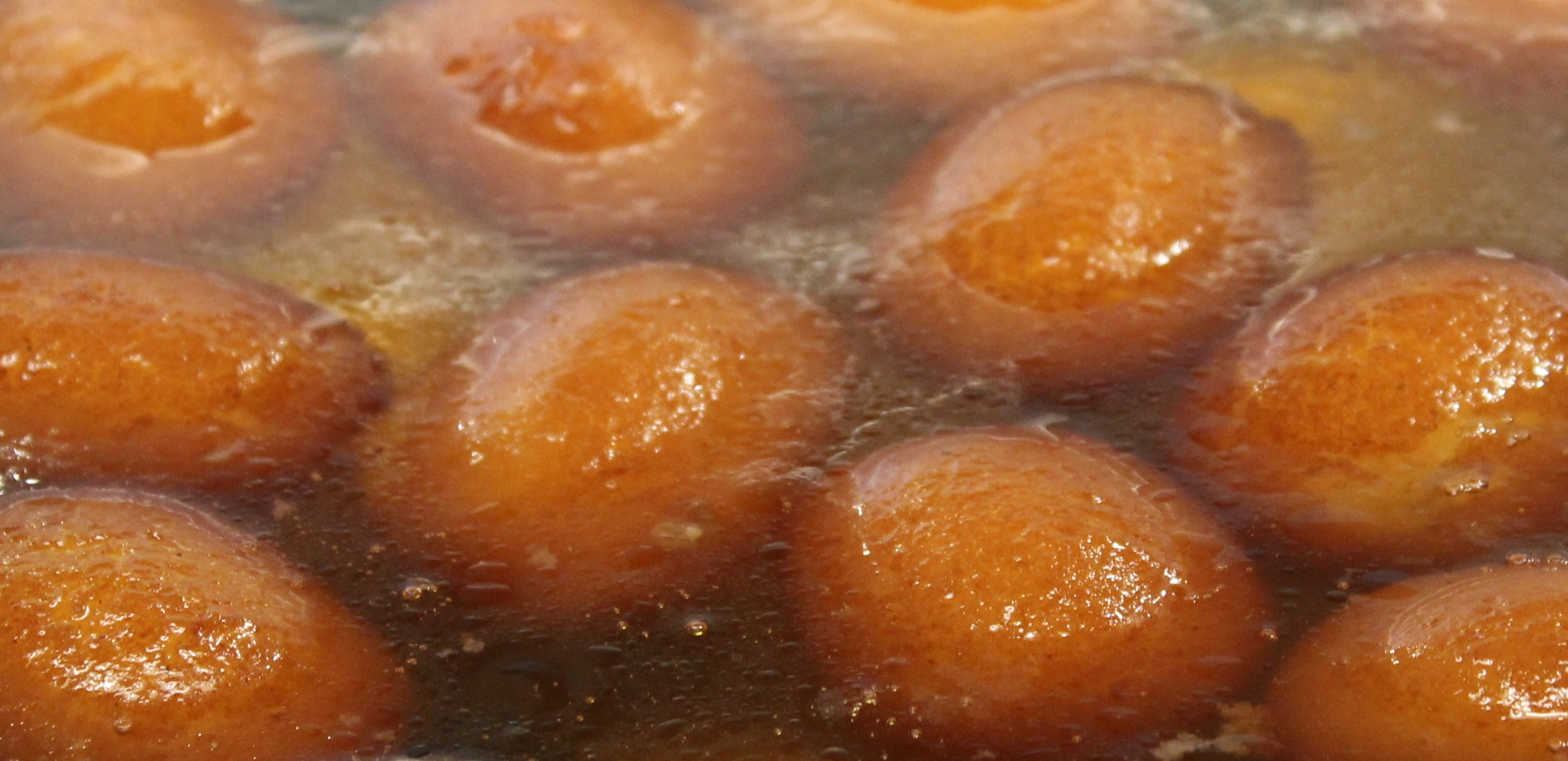 every festive favourite food in India